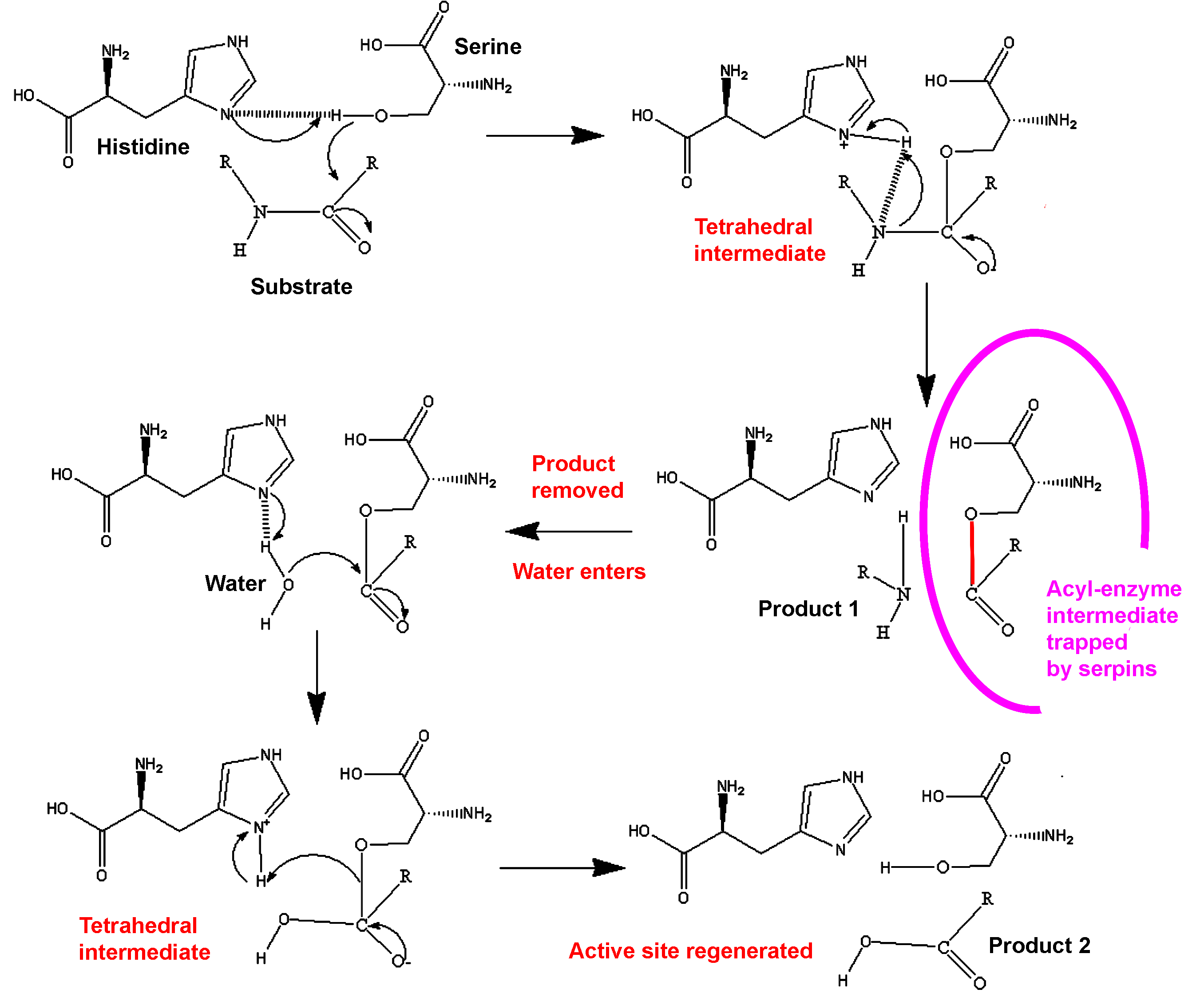 Modified form of Catserpcycle.png